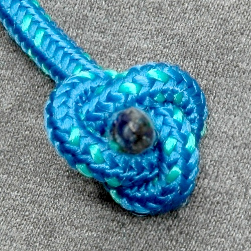 Load-bearing face of an Ashley's stopper knot (ABOK #526). NOTE: the knot is tied in a slightly unusual manner, with the "standing part" left very short, to better expose the Trefoil-like face of the knot.